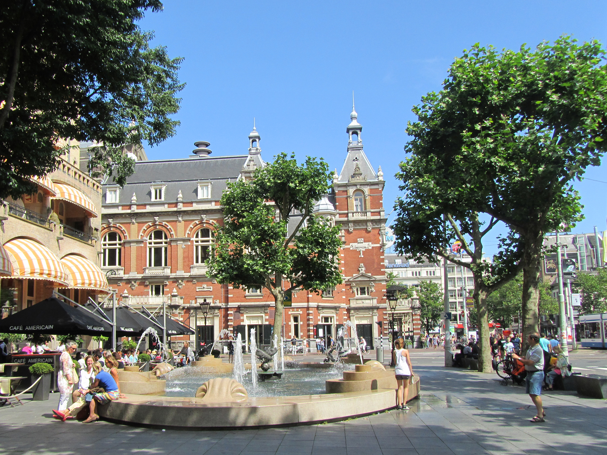 Leidseplein square in Amsterdam, with the fountain in front of the American Hotel and the Stadsschouwburg theatre